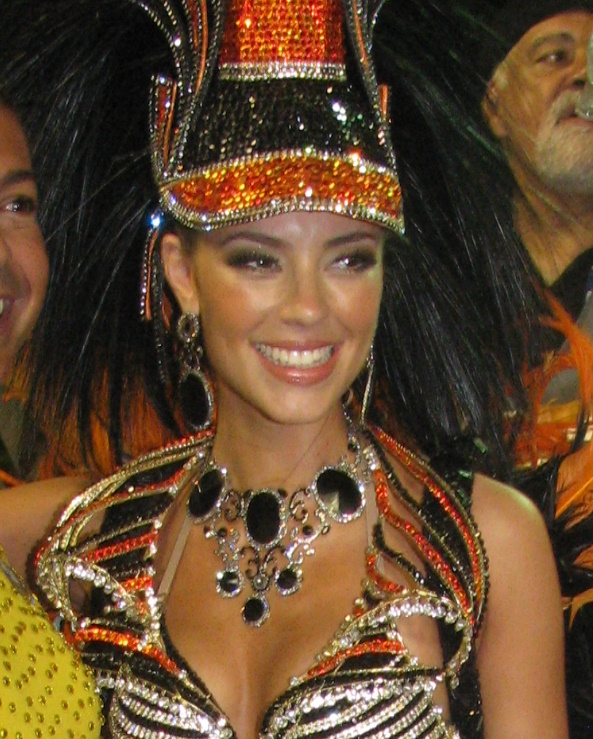 The actress Paola Oliveira at Masques de Sapucaí, 2010 Rio de Janeiro Carnival.